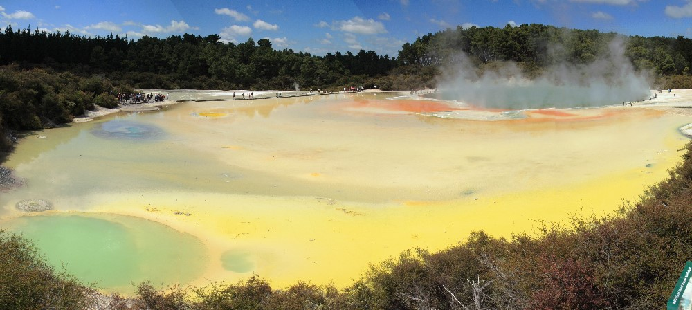 Panorama of the central pools of Wai-O-Tapu, Artist's Palette in the foreground, Champagne Pool in the background